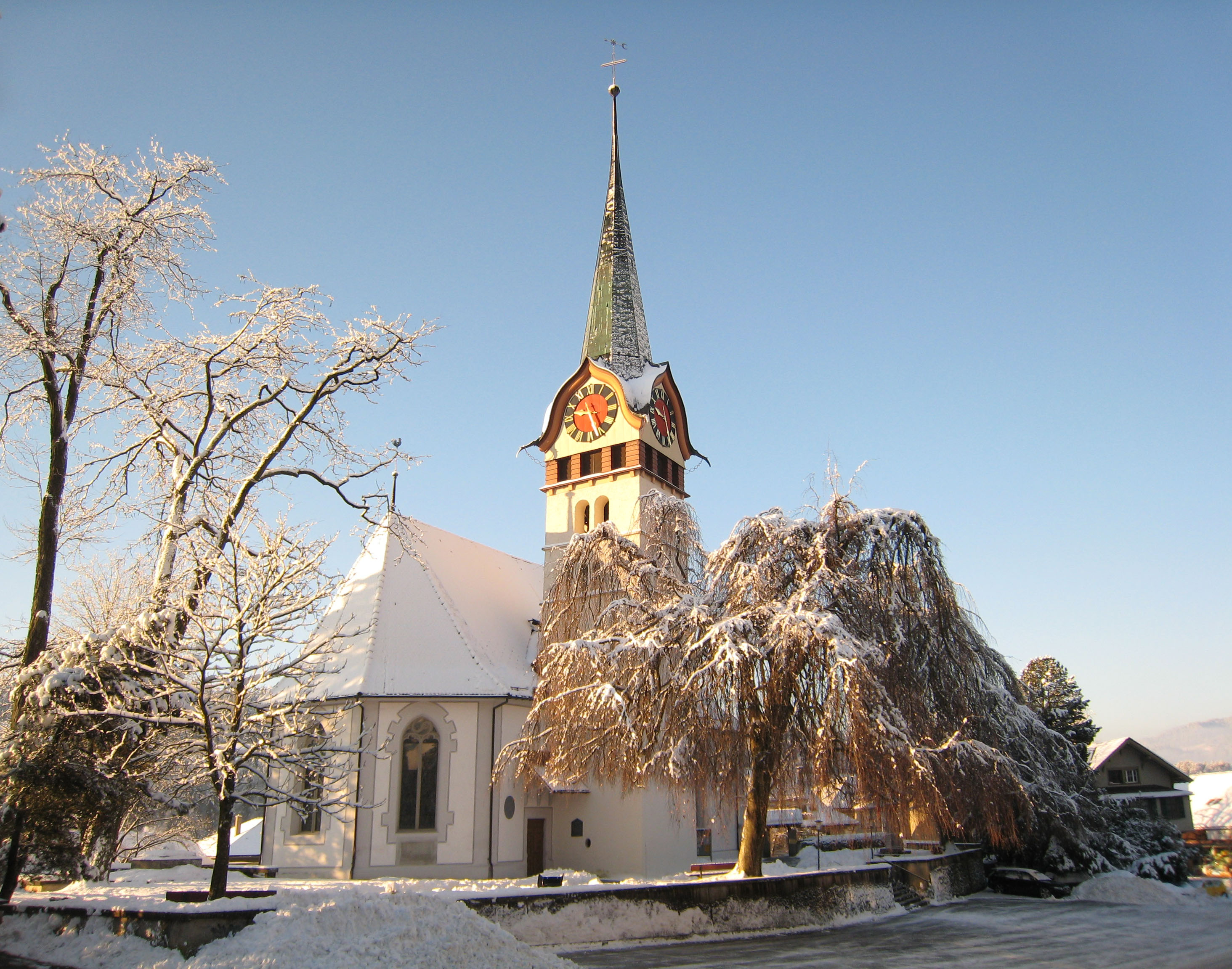 Reformed church of Langnau im Emmental, Switzerland, built 1673.